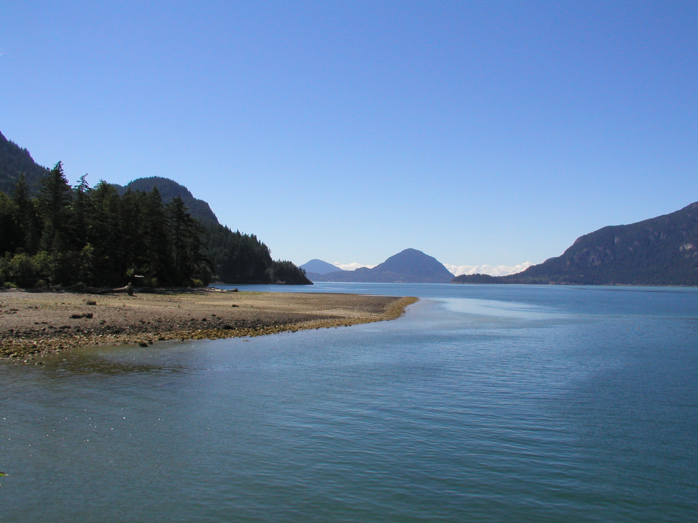 The Howe Sound, on the British Columbia Coast.